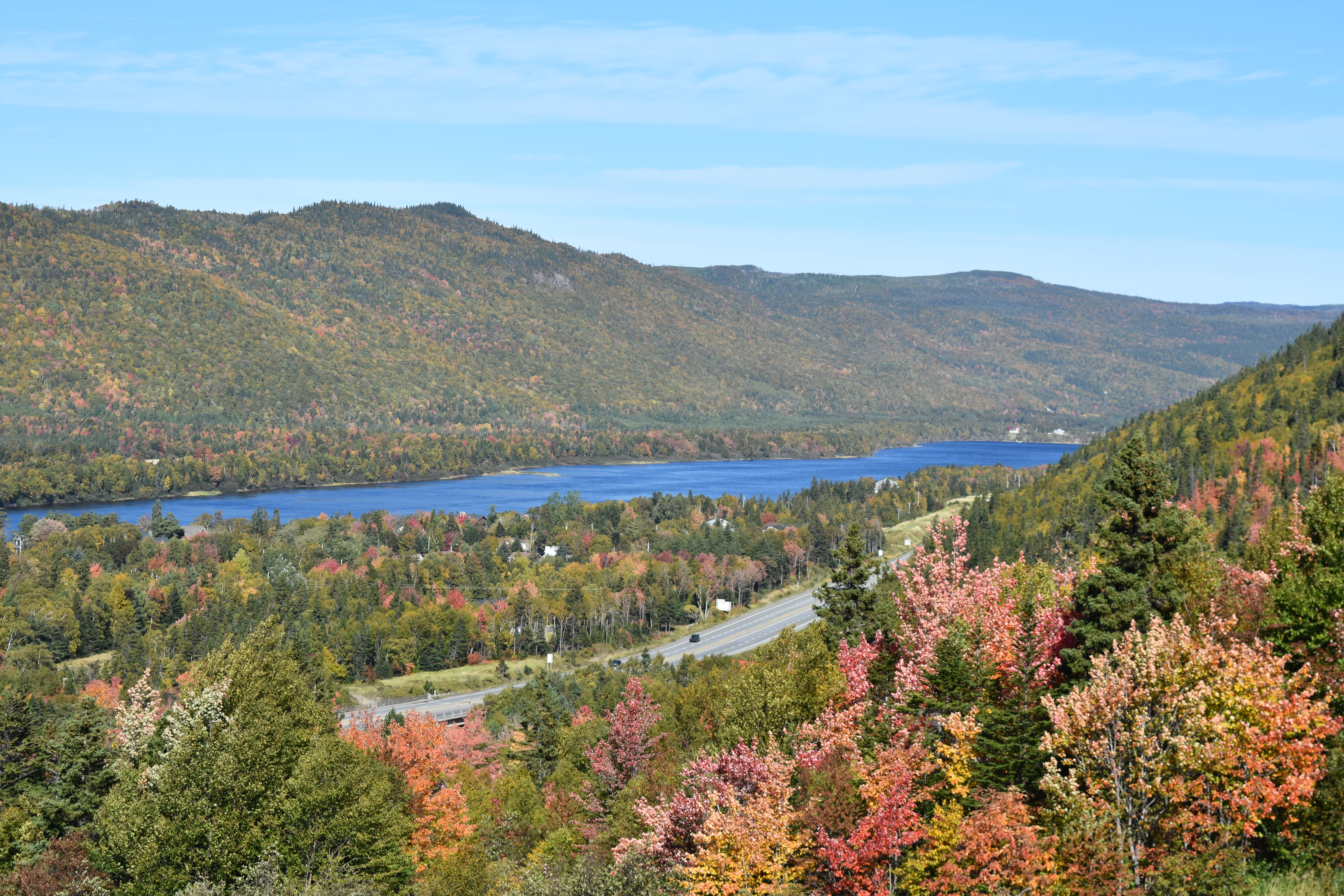 Humber River near Steady Brook, Newfoundland, Canada